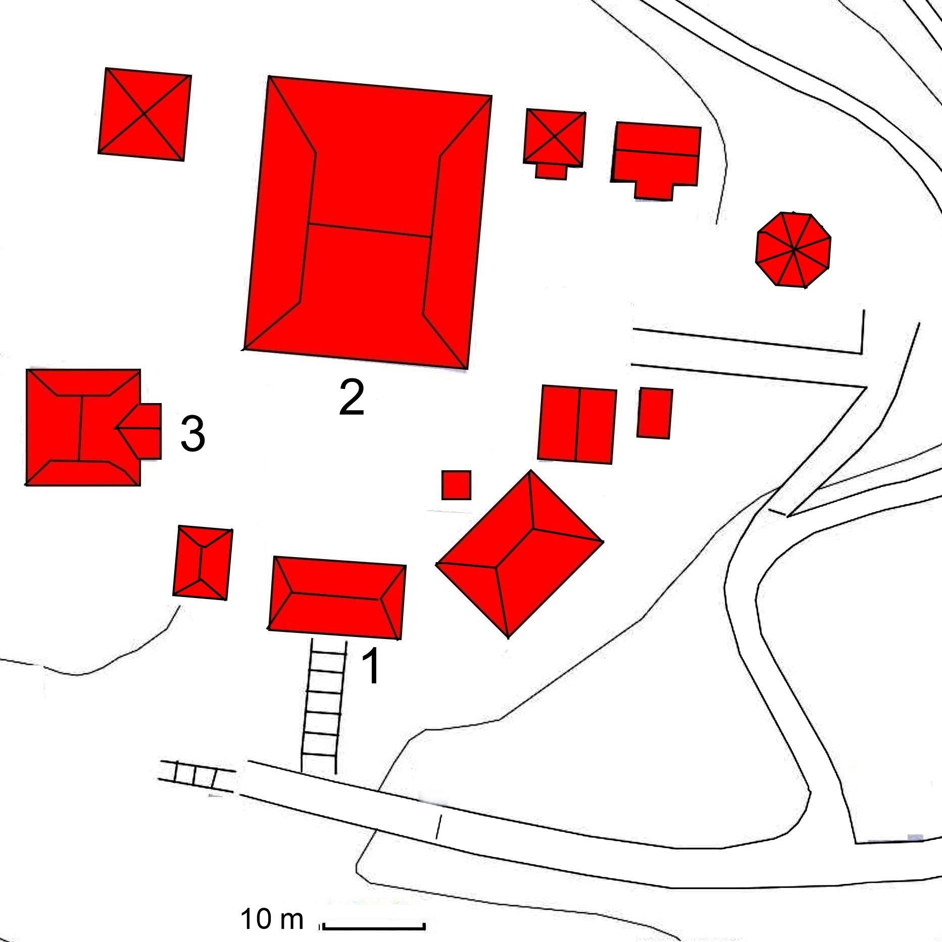 Layout of Taisan-ji (Matsuyama Prefecture)